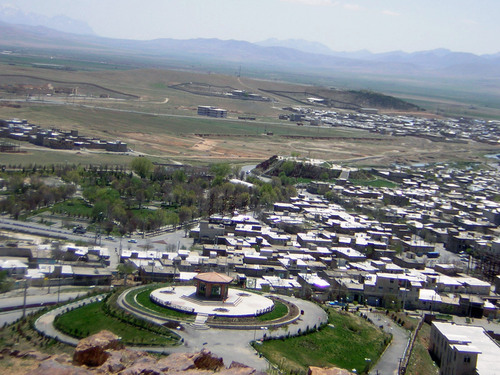 AZNA - Aachigh ازنا - آلاچیق